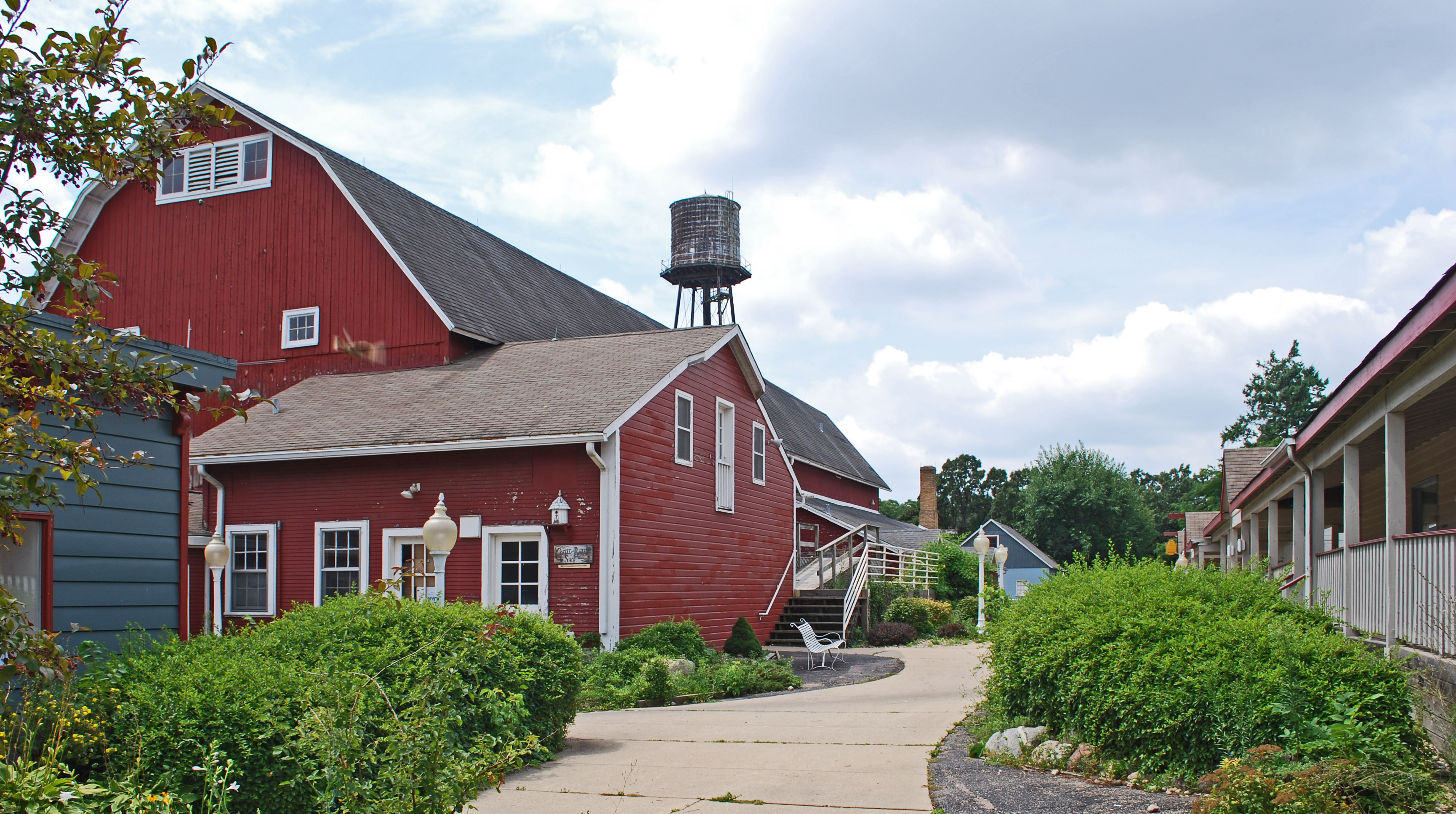 Milk Pail Restaurant Complex, Dundee Township, Kane County IL